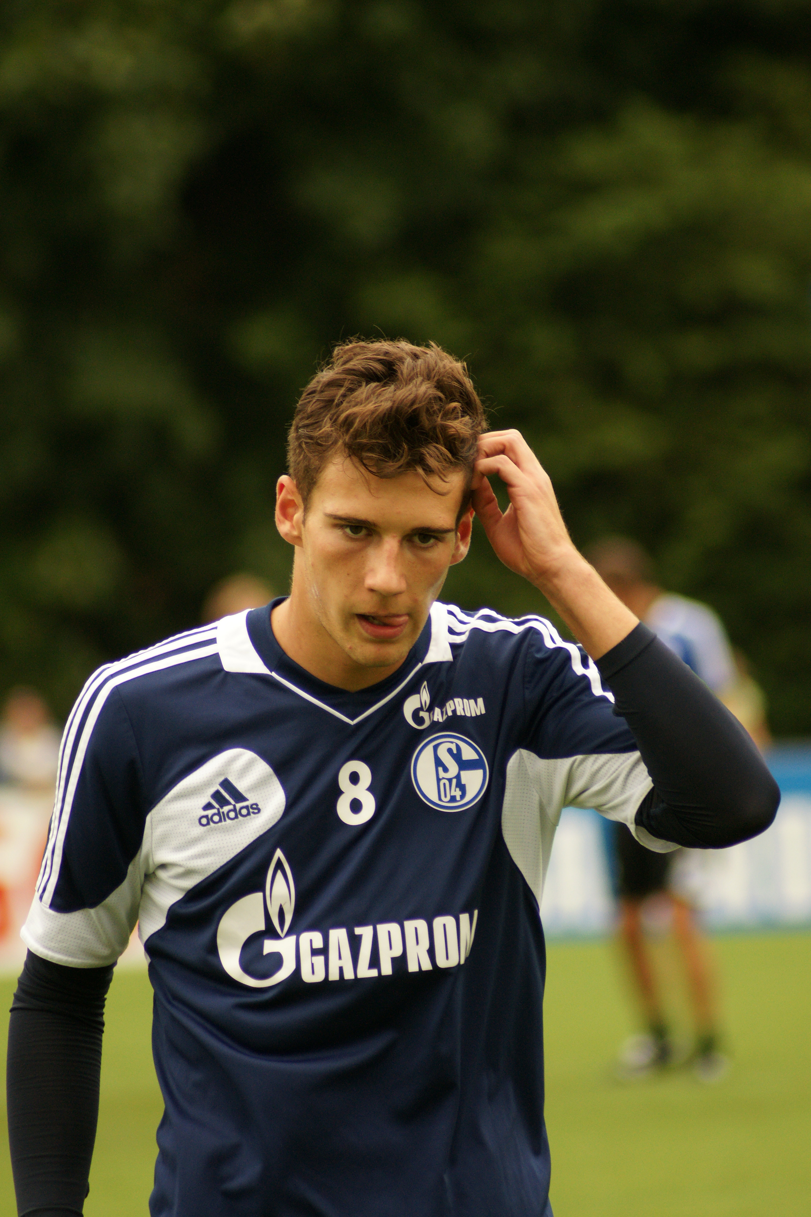 Leon Goretzka during training in August 2013.